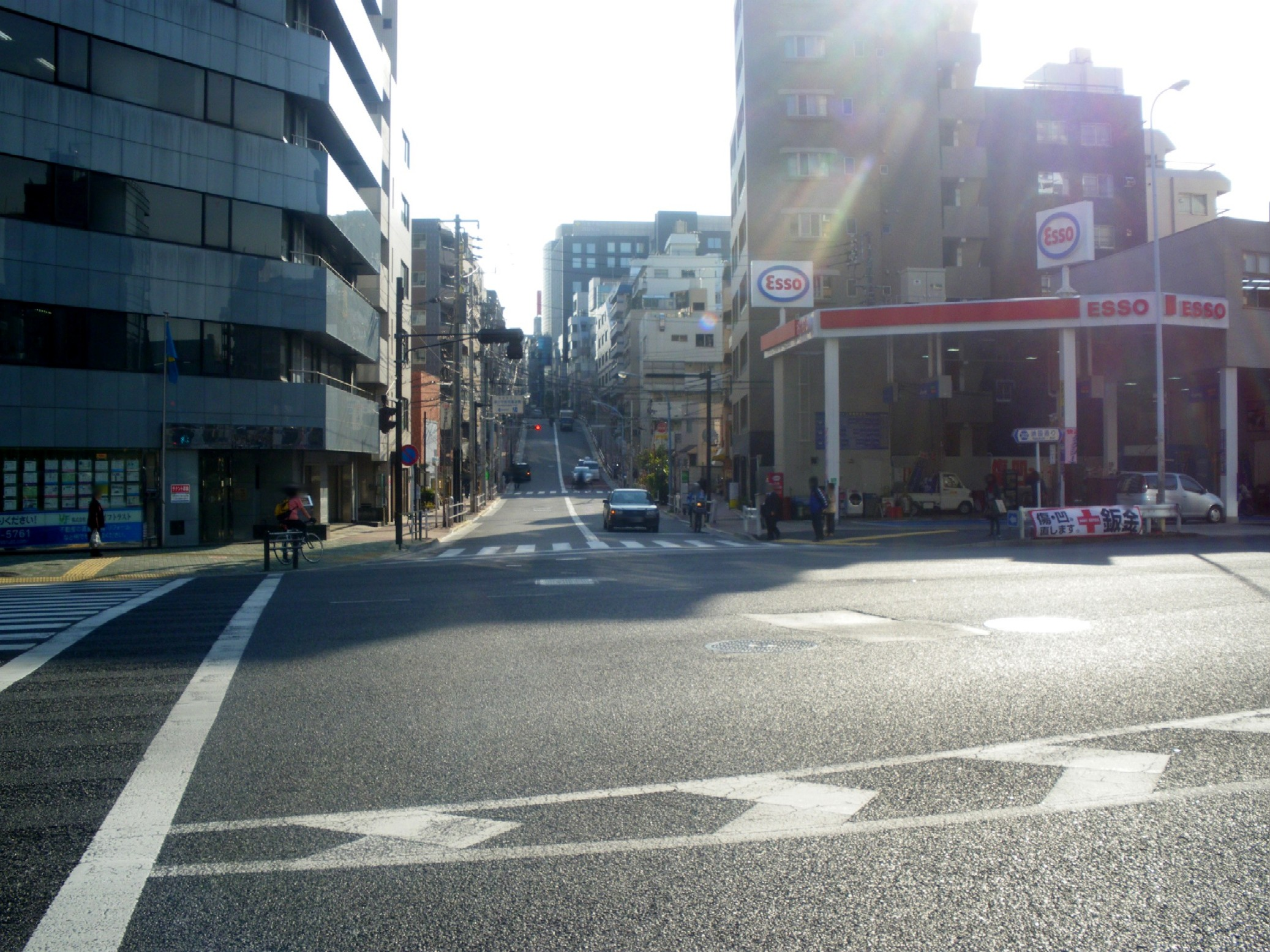 Tsunokamizaka street and yasukuni Dori intersection(Shinjuku,Tokyo)